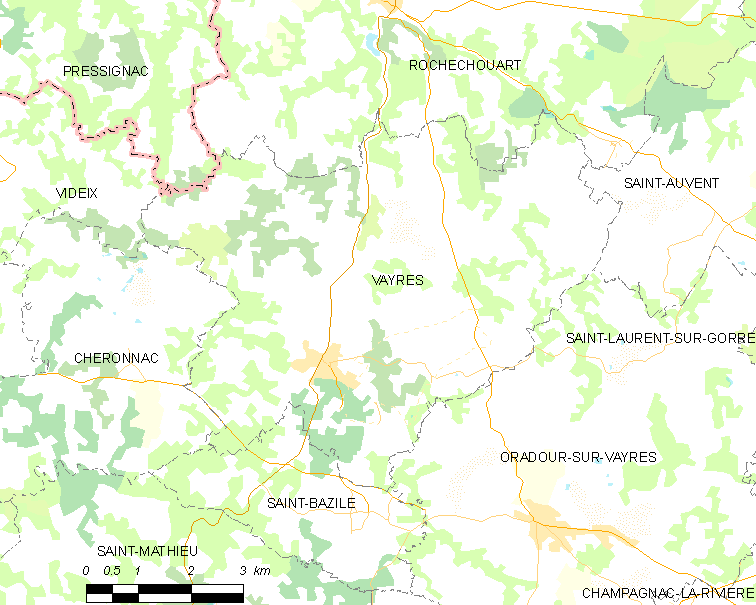 Map of French municipality Vayres